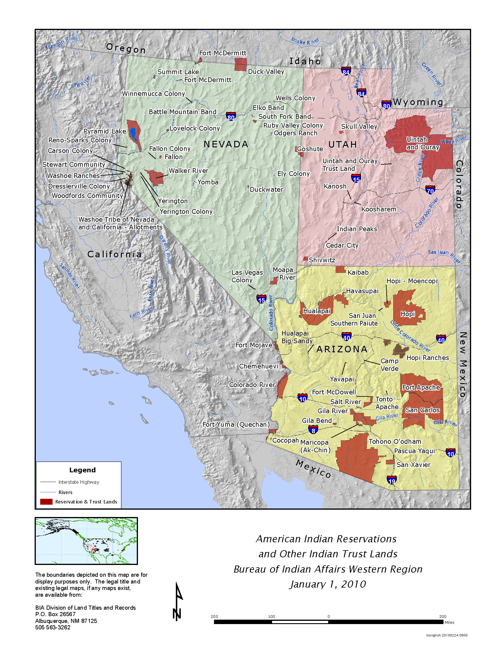 A Map of Indian Reservations in the Bureau of Indian Affairs Western Region, AZ, NV, UT and portions of CA, OR and ID